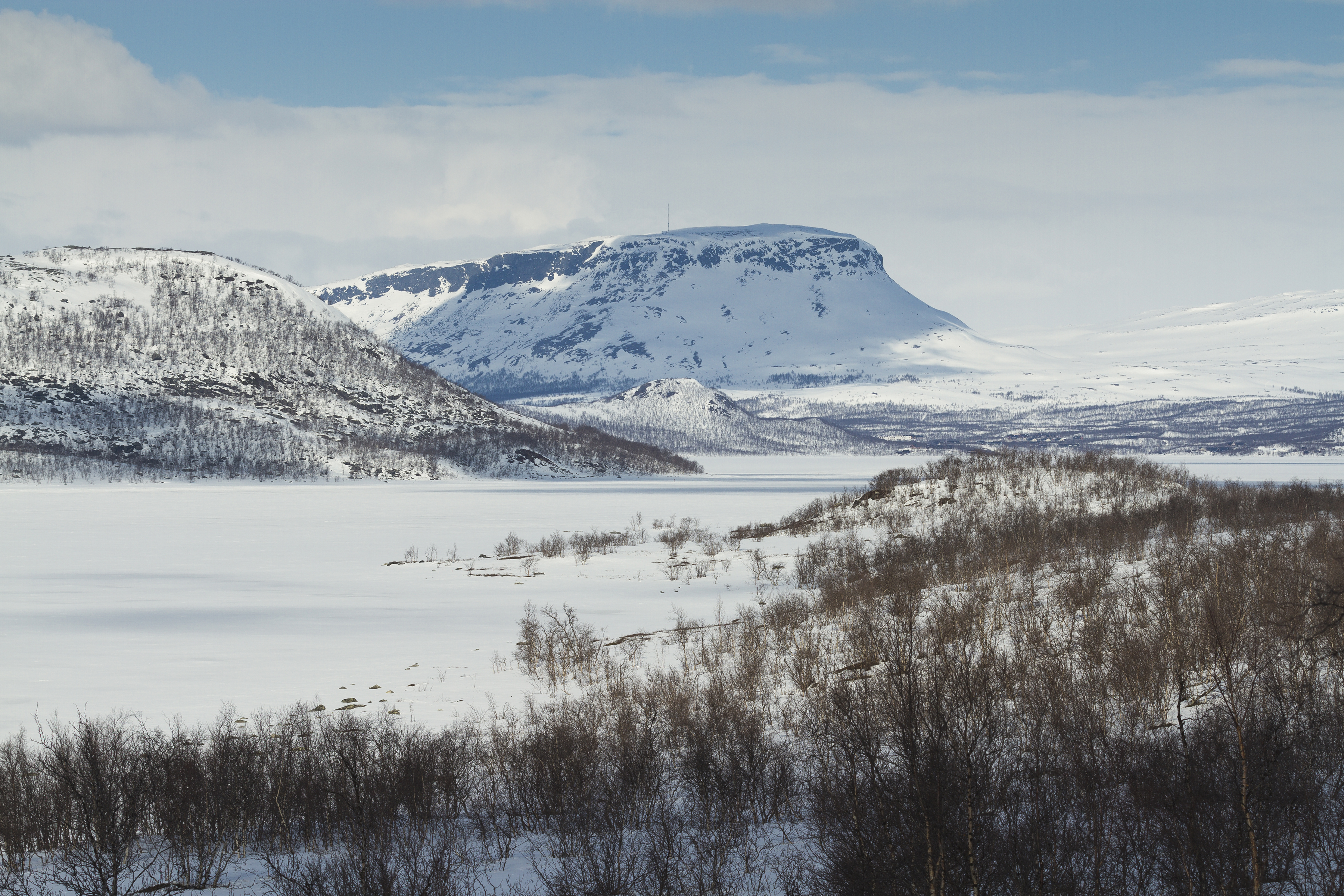 Saana fell (one of the highest fells in Finland) near Kilpisjärvi as seen from the south over Ala-Kilpisjärvi lake in Enontekiö, Lapland, Finland in 2015 April.